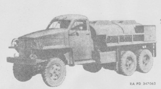 Studebaker US6 Tanker U5